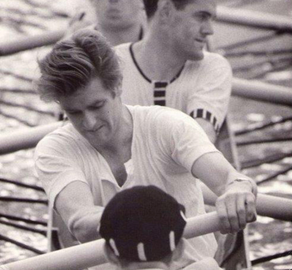 John M Russell Rowing